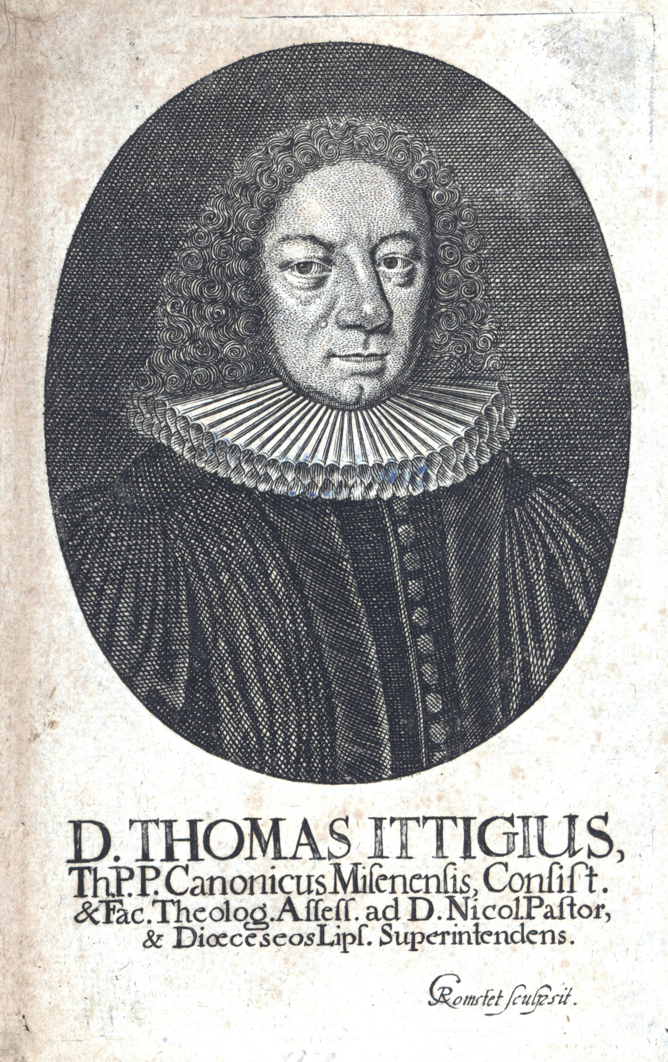 Thomas Ittig (1643-1710) german lutheran Theologist